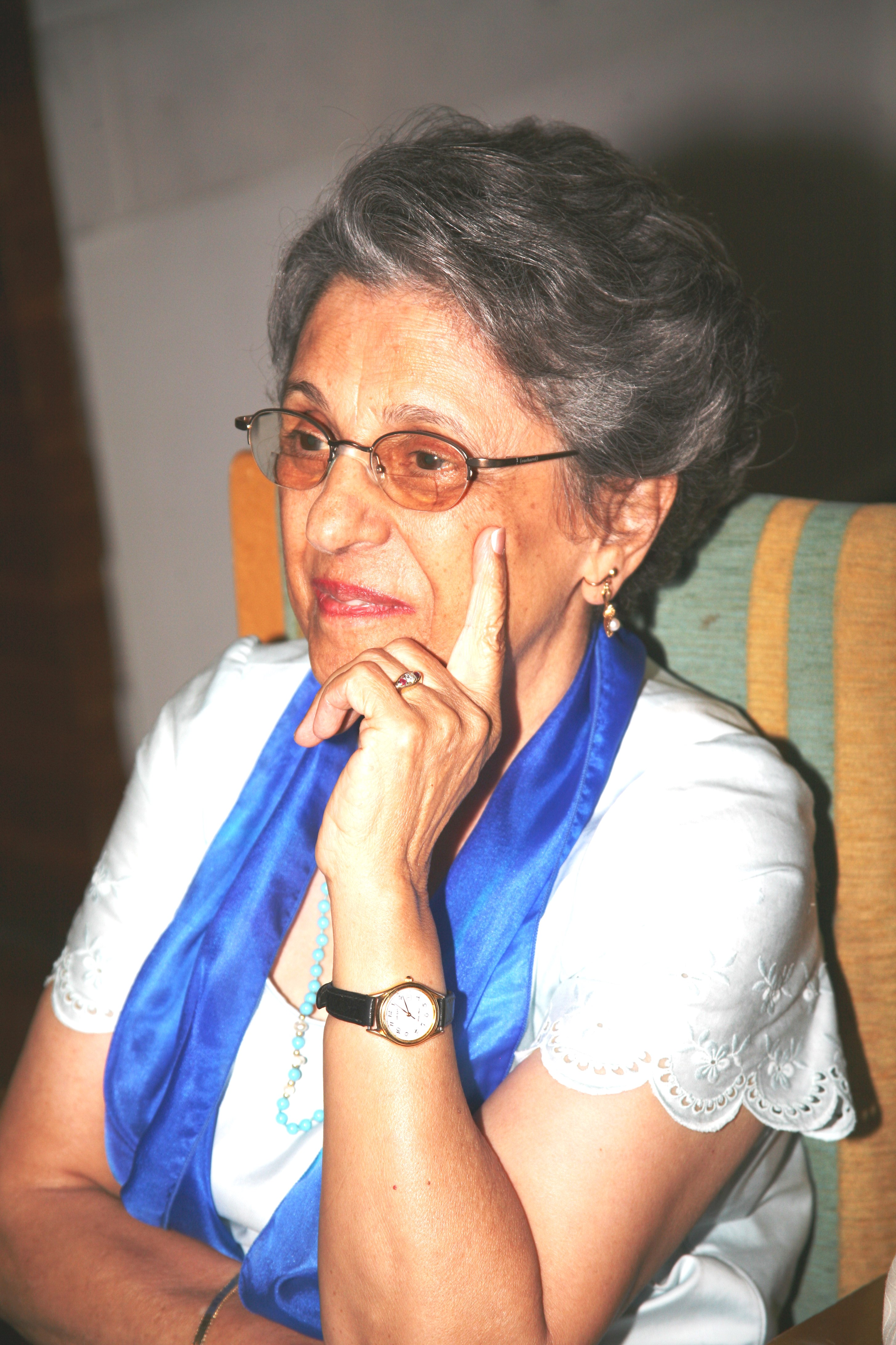 Aliza Ziv at her 50th Wedding Anniversary